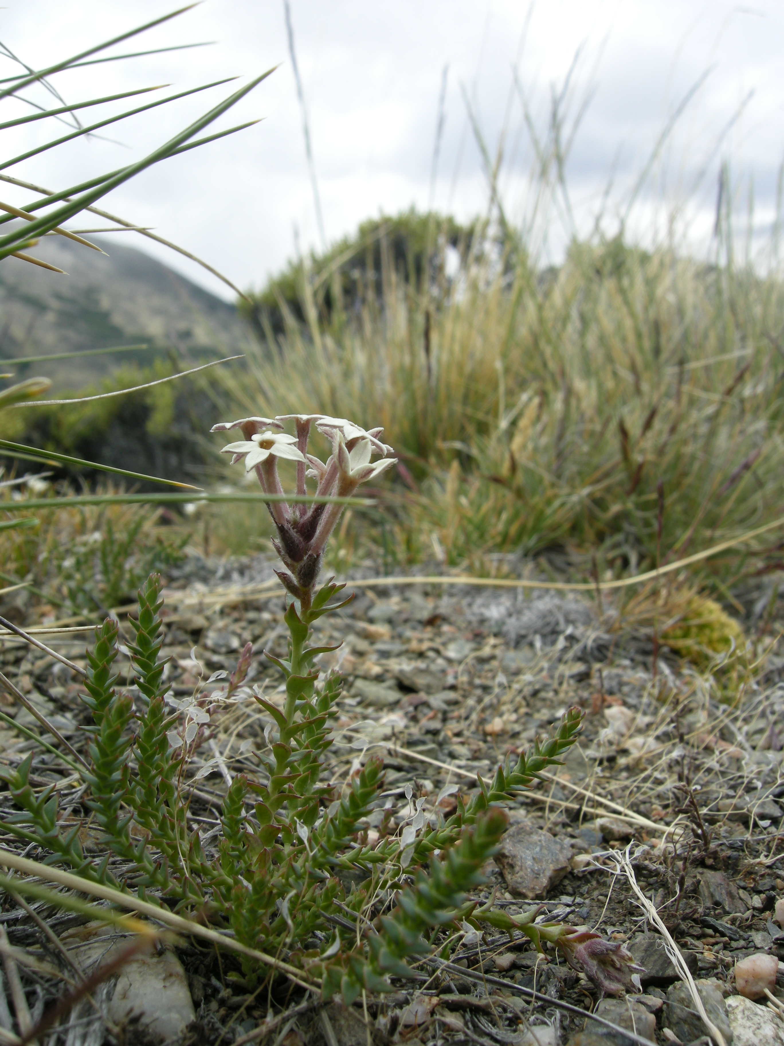 General view of Arjona patagonica. Picture taken in Belgrano peninsula, in the Perito Moreno national park (Santa Cruz provincia, Argentina).